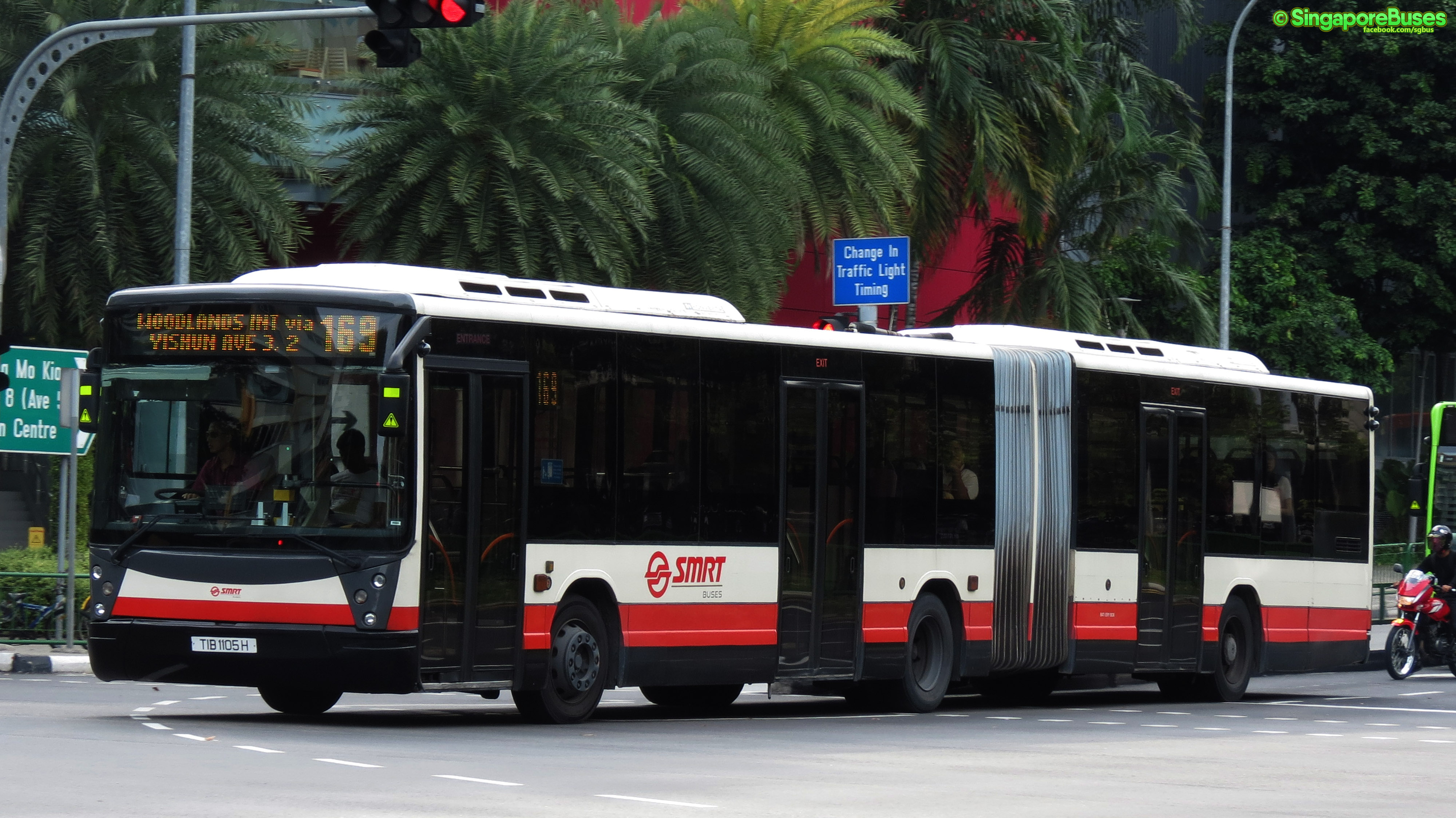 Mercedes Benz O405G Habit (Hispano bodied) bendy bus operating for SMRT.